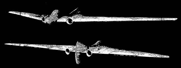 A 1/17th scale wind tunnel model of the Interstate XBDR-1. The XBDR was an early twin-jet-engined UCAV or drone, developed during the latter stages of World War II in the United States. Although a wind-tunnel model was tested, full-scale development was not pursued.